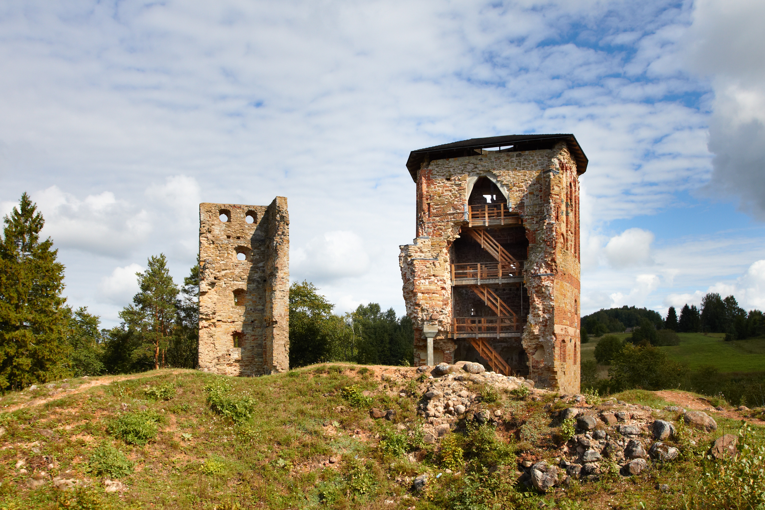 Vastseliina Castle ruins in South-East Estonia.